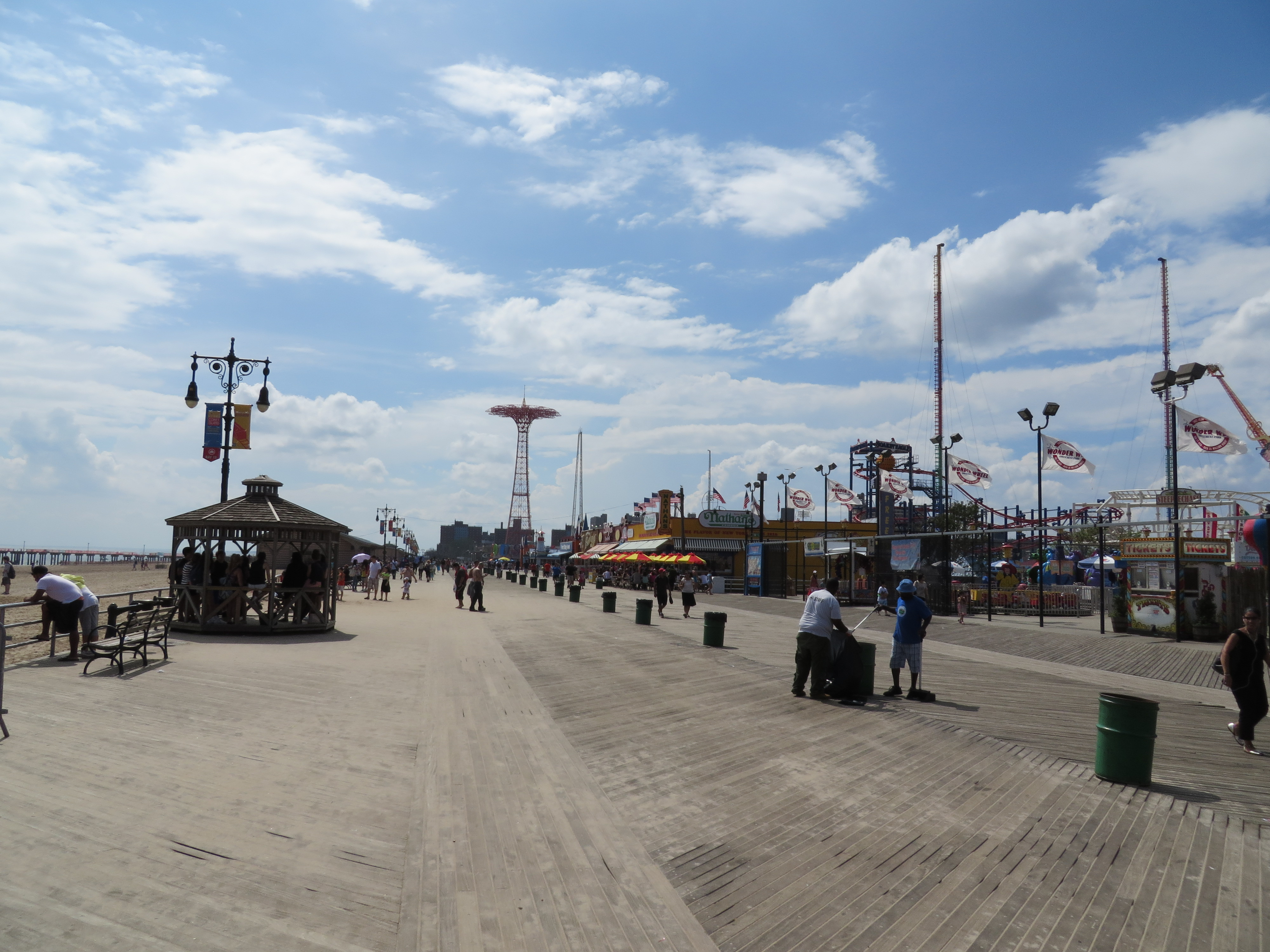 Riegelmann Boardwalk on Boardwalk West just east of intersection with West 12th Street at Luna Park, Coney Island, Brooklyn, New York.